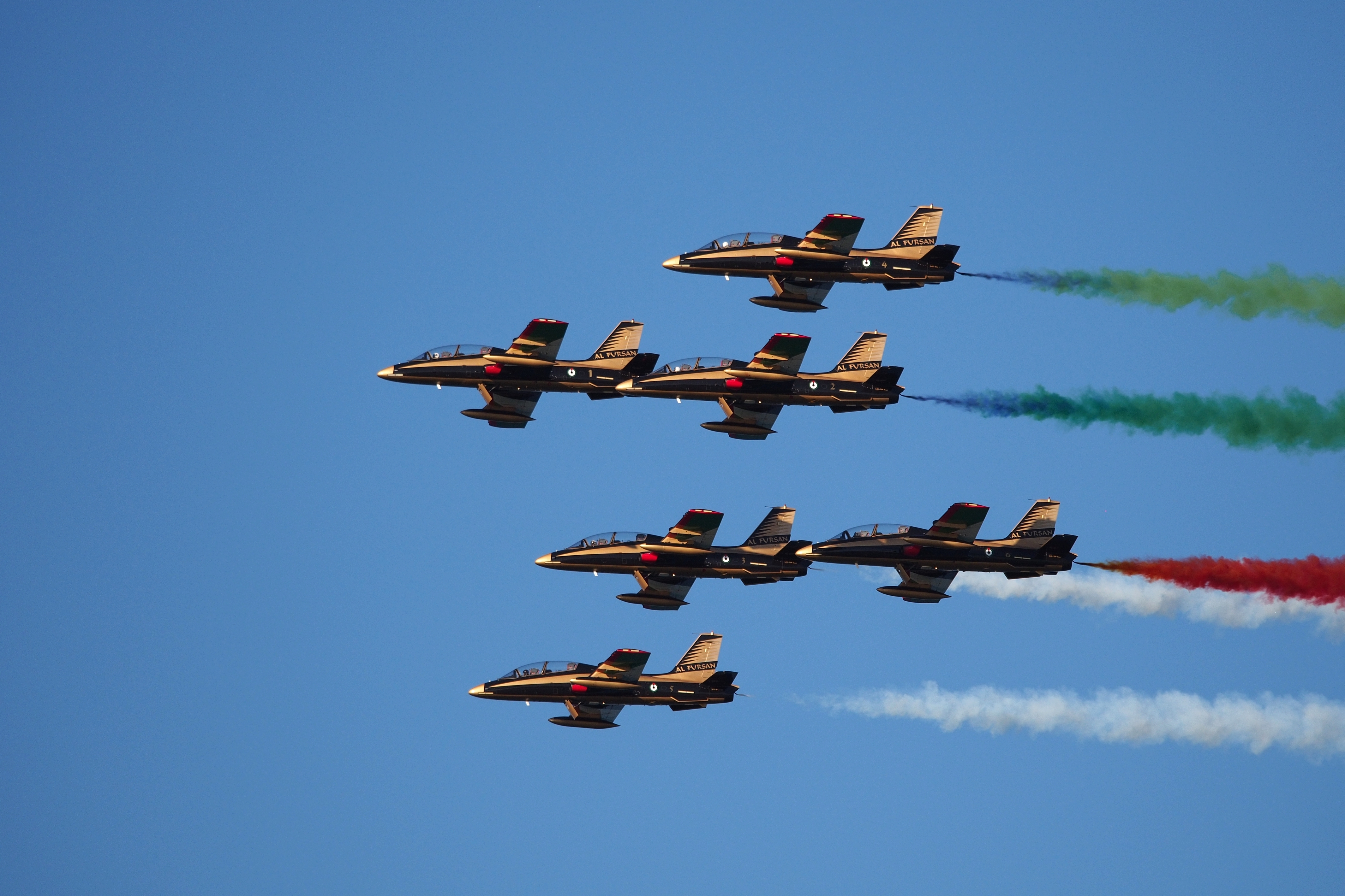 Al Fursan aerobatic team over Muscat, Oman